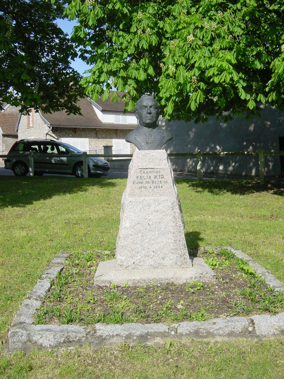 Félix Kir bust